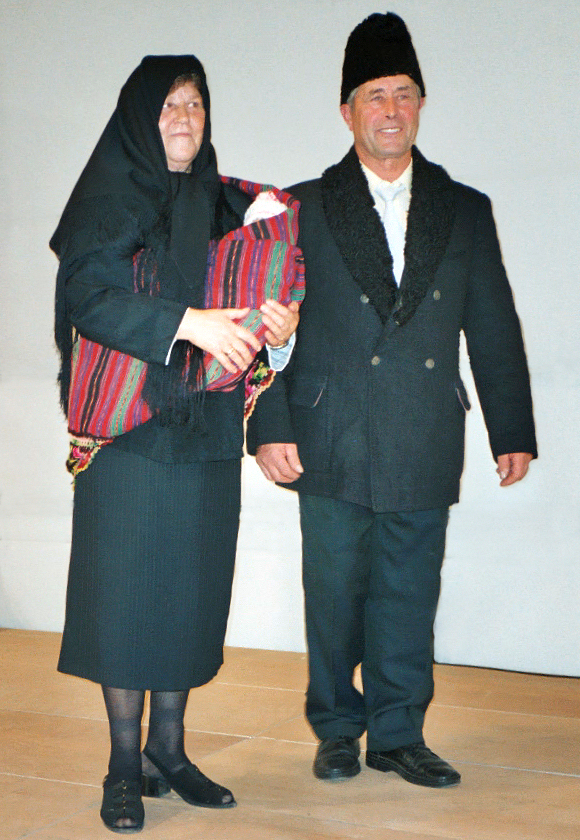 Bessarabia Germans at the North German Meetup of Bessarabia Germans, September 2003 in Möckern, Saxony-Anhalt, Germany